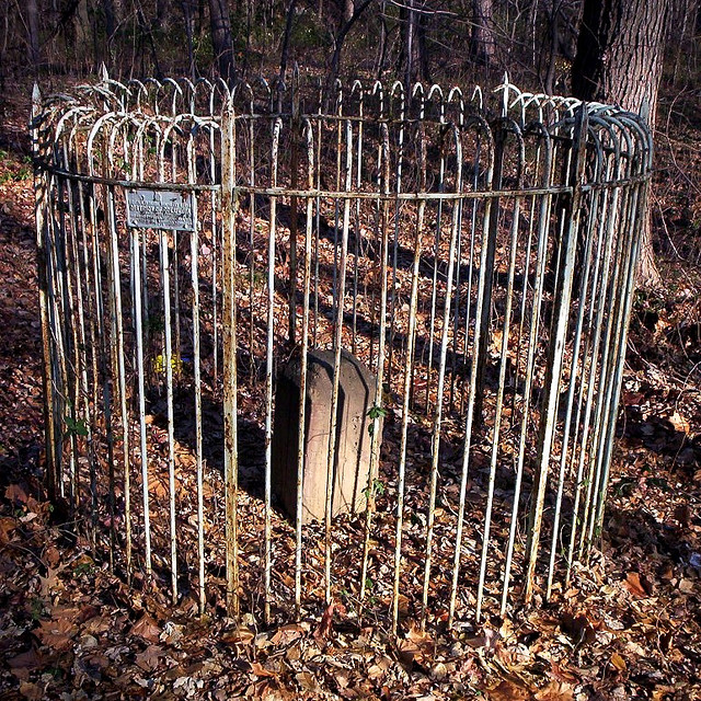 Far eastern boundary stone of the District of Columbia